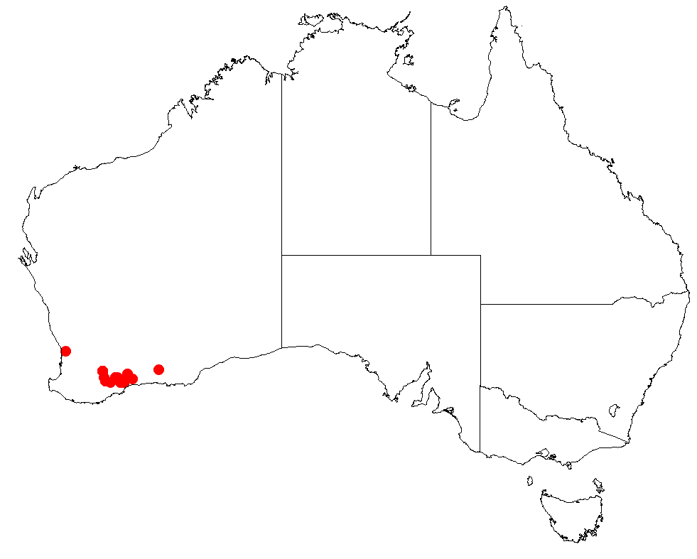 Bossiaea spinosa Occurrence data downloaded 11 September 2018 from AVH